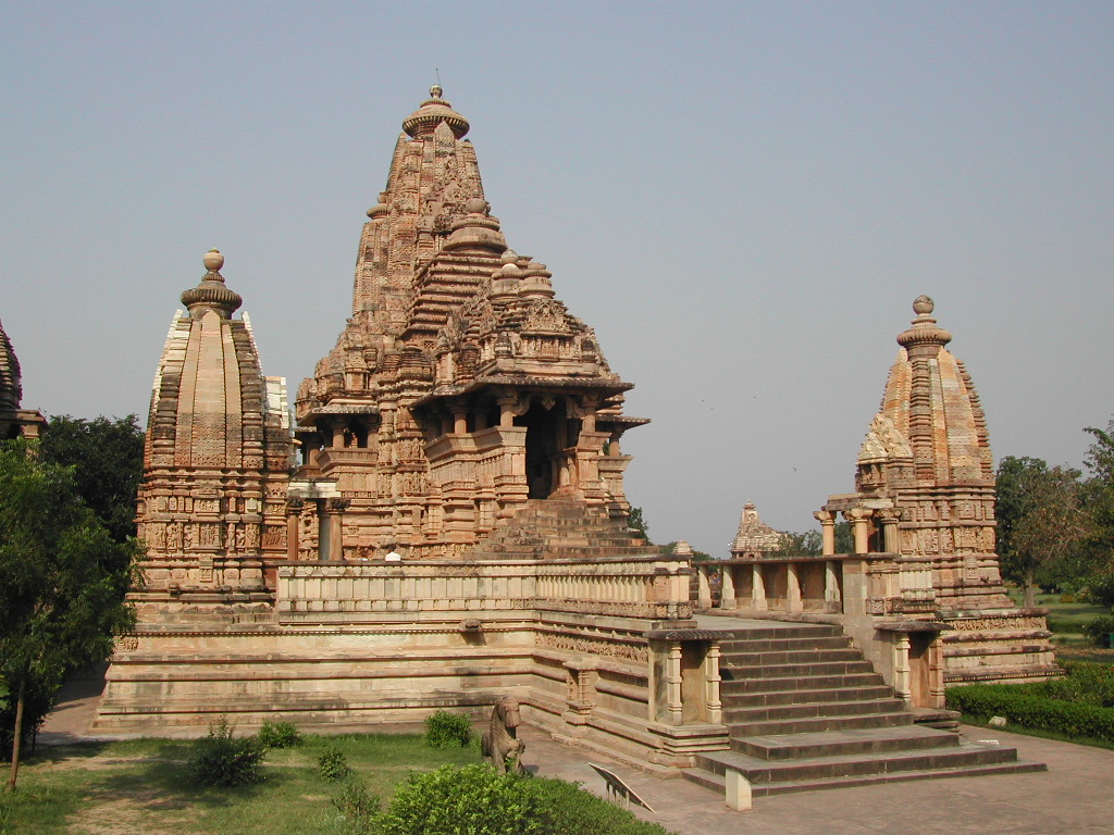 This is the Lakshmana temple in Khajuraho, a city in northern Madhya Pradesh, India. This temple is situated in the Western Group of temples.